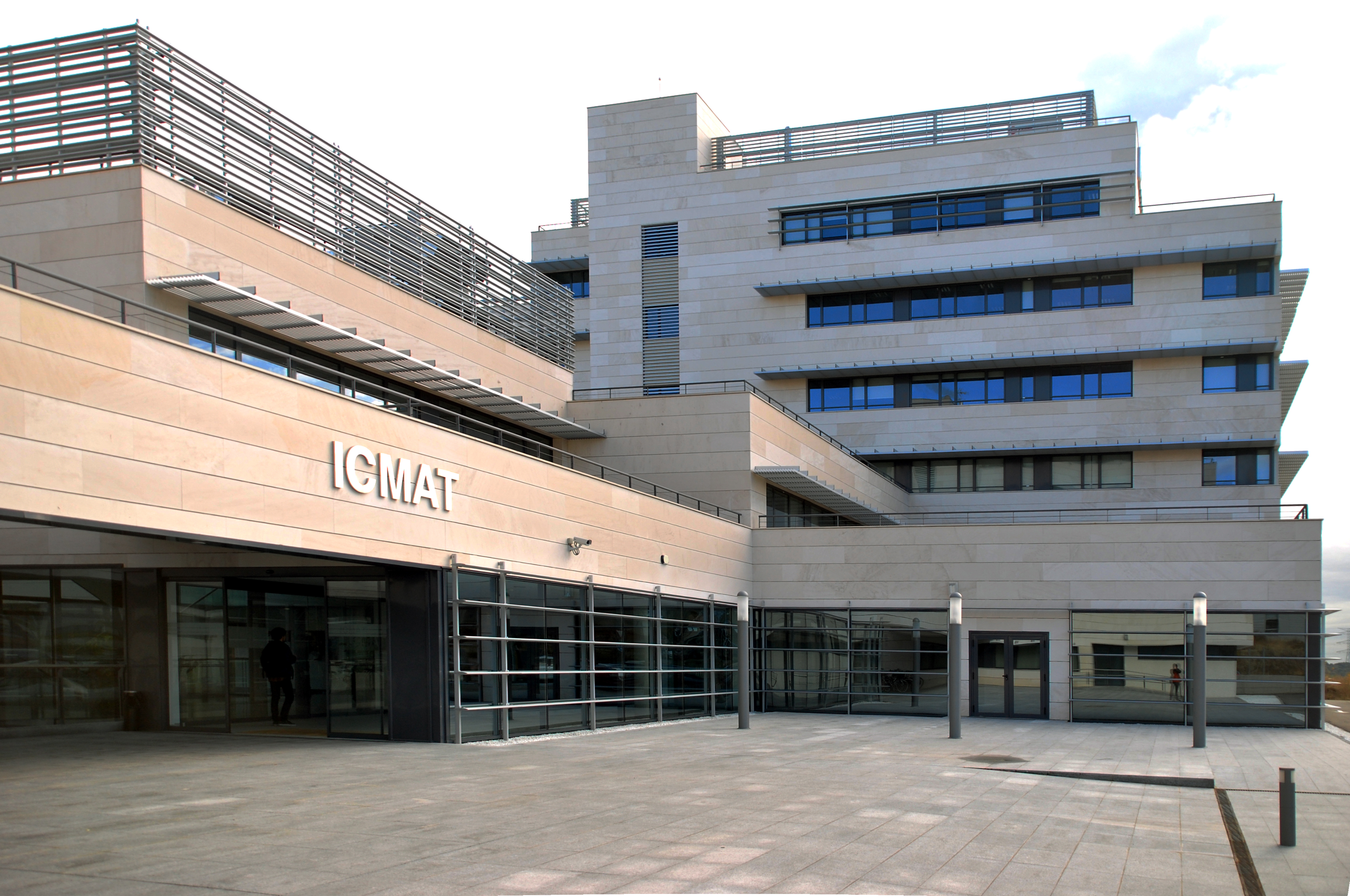 The ICMAT is housed in a new building. It is situated on the Universidad Autónoma de Madrid Cantoblanco Campus and forms part of the UAM+CSIC Campus of International Excellence.